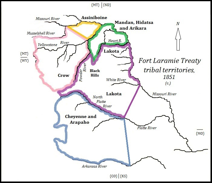 Map of Indian territories as described in the Treaty of Fort Laramie (1851)